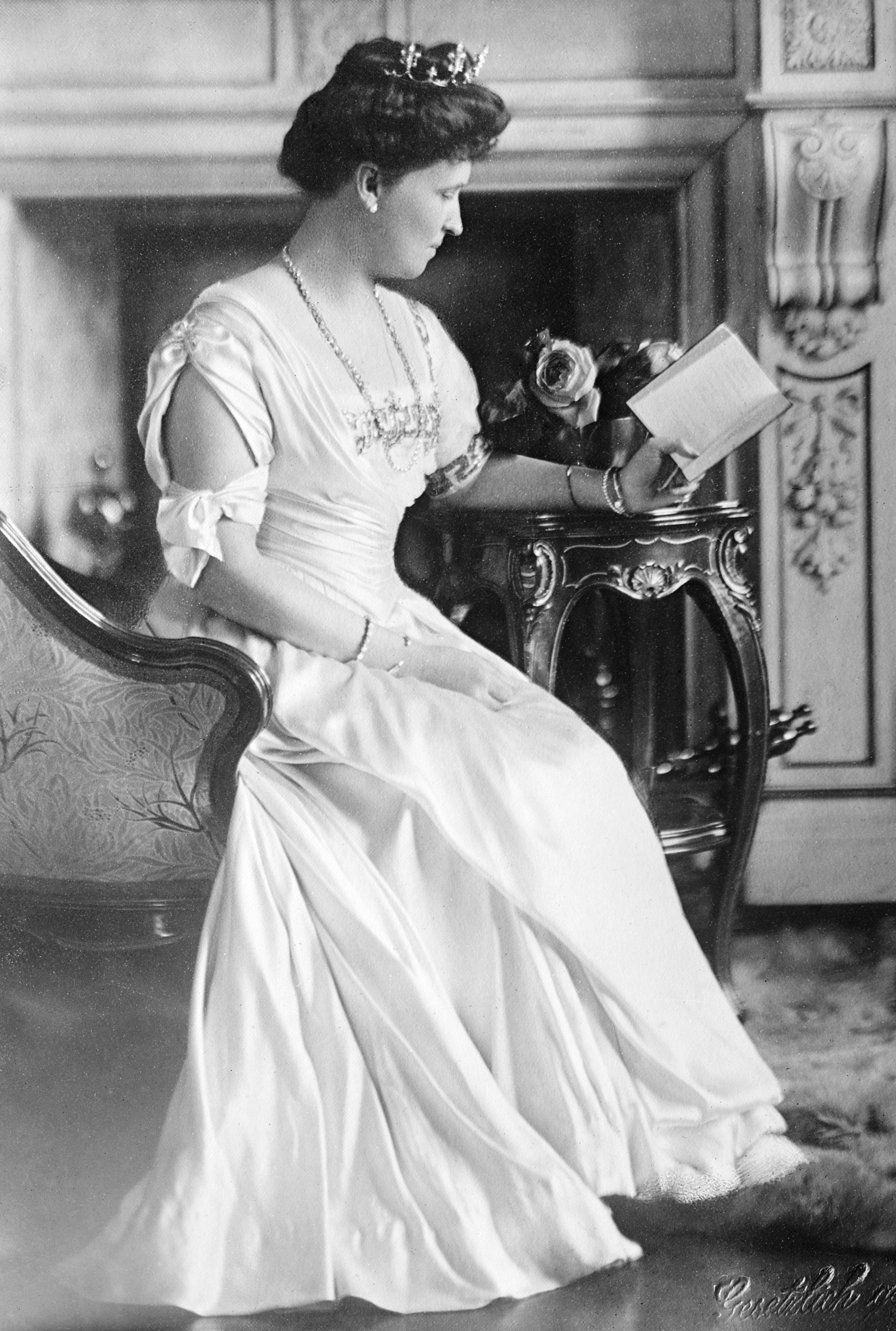 Princess Henry of Prussia, seated reading Gesetzlich gesch (protected by law)